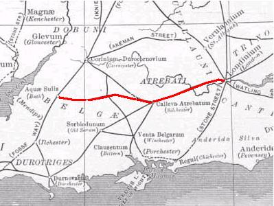 From :Image:Romanbritain.jpg